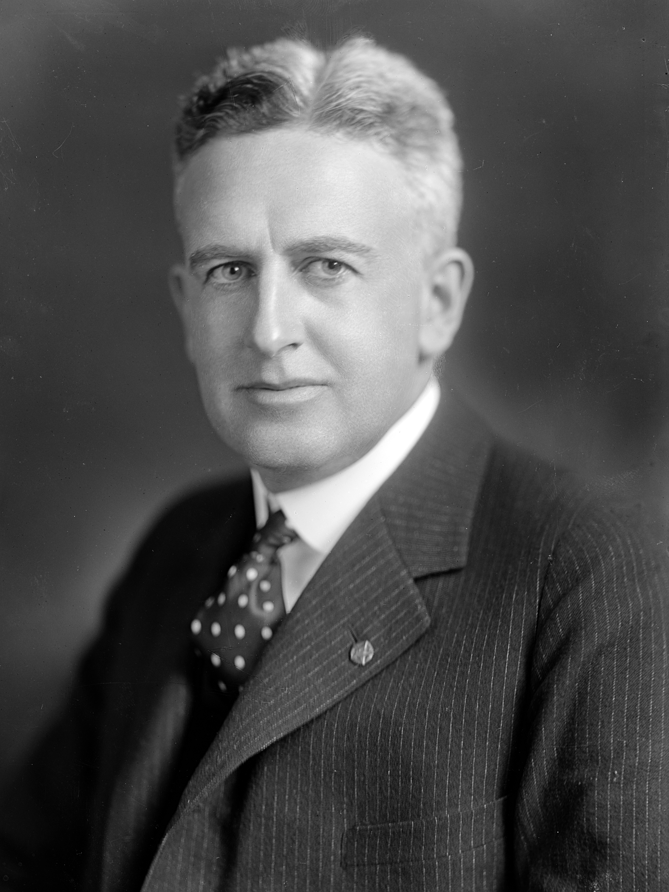 William Huntington Kirkpatrick, US Representative from Pennsylvania